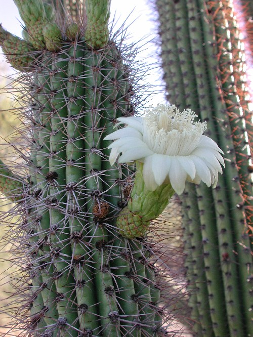 night blooming flower of Organ Pipe Cactus (Stenocereus thurberi subsp. thuberi). Photographed at Organ Pipe National Monument, Arizona, USA.